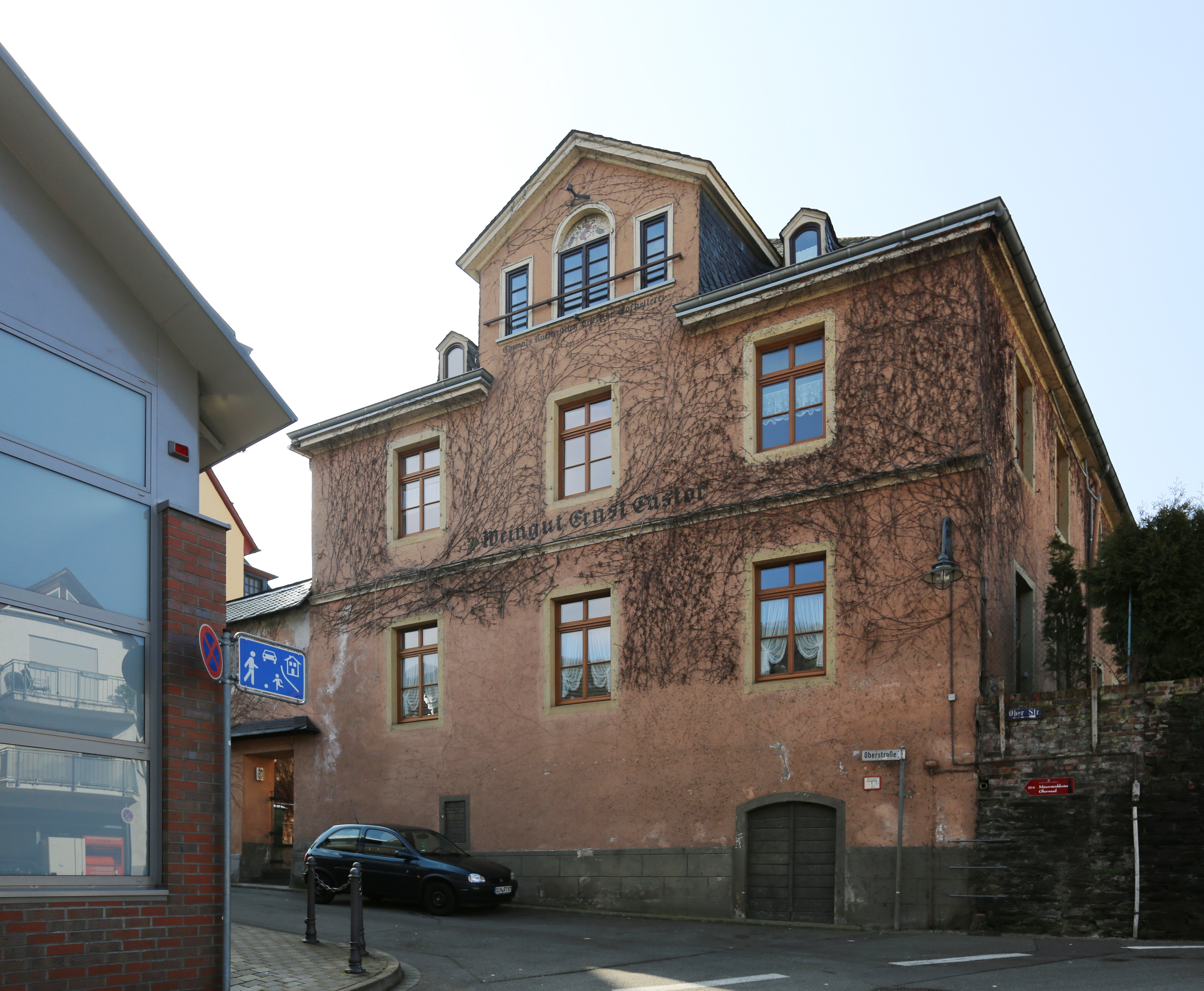 Cultural heritage monuments in Oberwesel, Rhine Valley/Germany